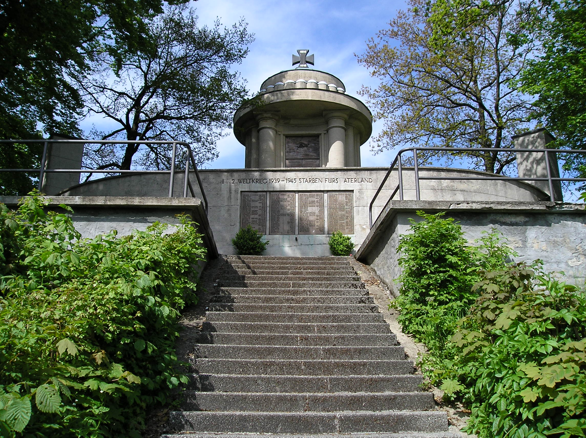 Memorial for the dead soldiers of the first and second World War from Gräfenberg, Germany. The memorial is located above the town in a wood at the rim of the slope down to Gräfenberg.